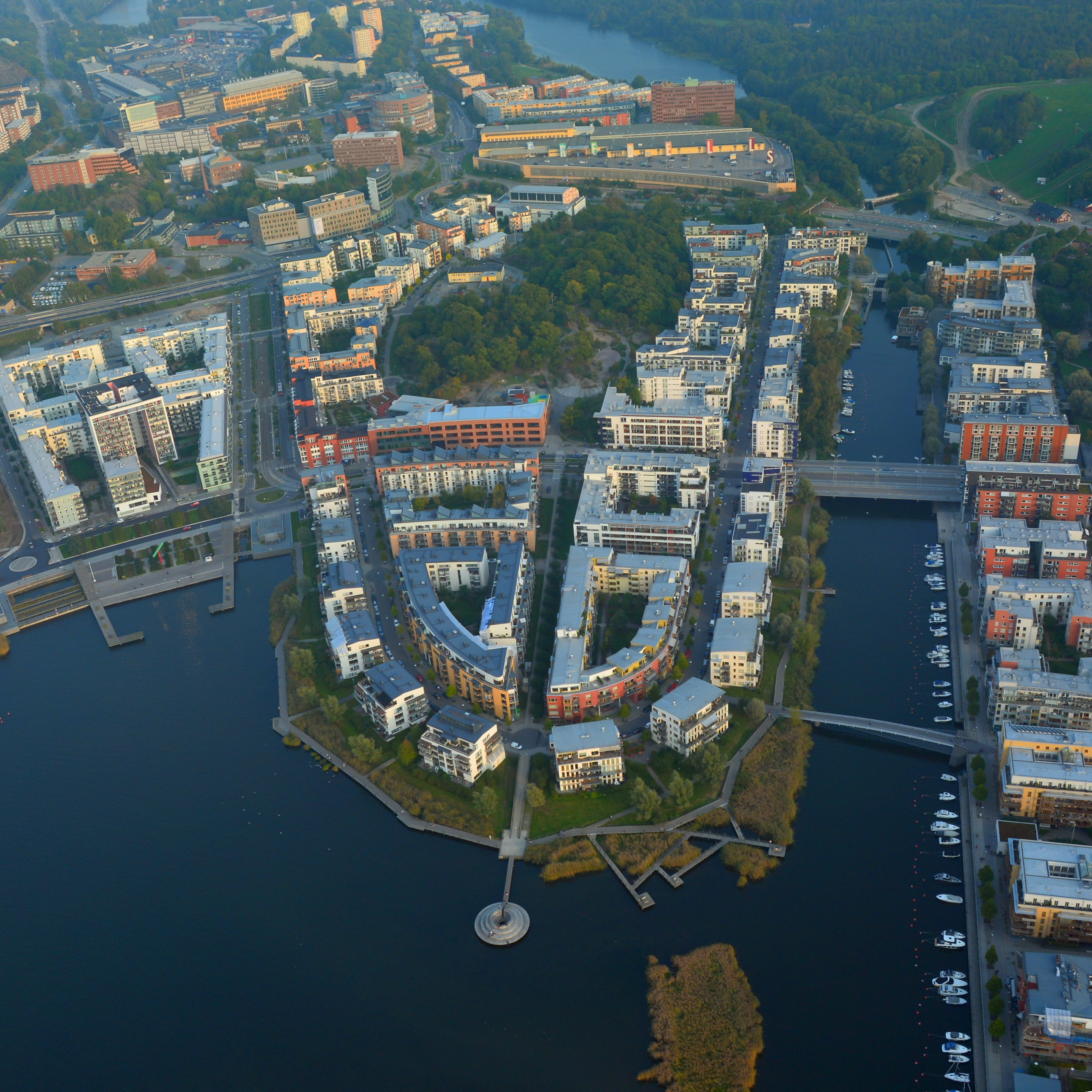 Sickla udde in Hammarby Sjöstad, Stockholm, Sweden.